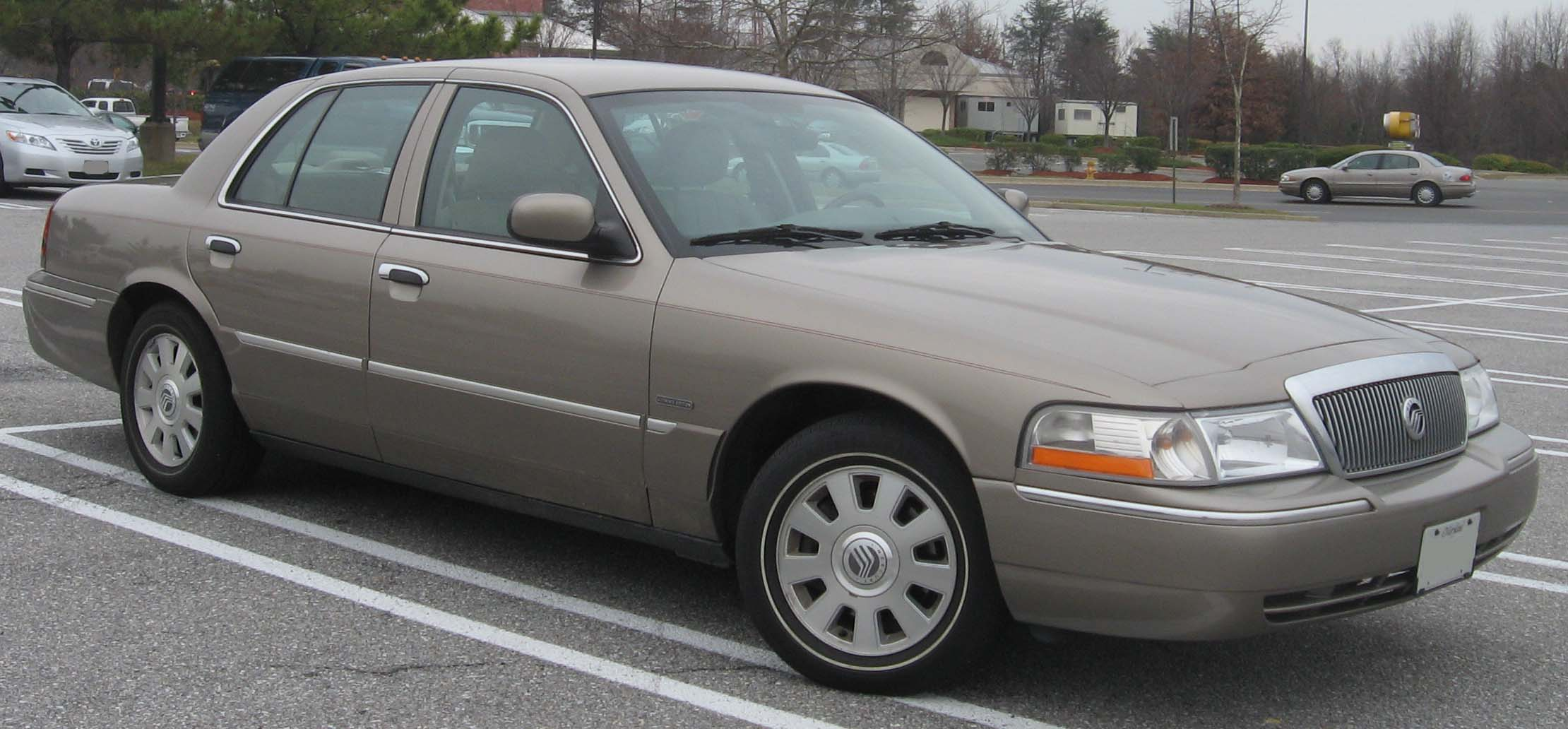 2003-2005 Mercury Grand Marquis photographed in Waldorf, Maryland, USA.